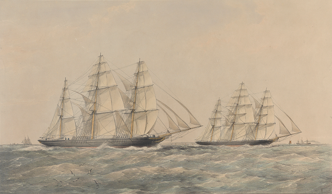 The Great China Race. PAH8572 S4144 Inscription: The Great China Race. The Clipper Taeping & Ariel passing the Lizard Sept 6th 1866 on their homeward voyage from Foo-Chow-Foo. T. G. Dutton Del et Lith Taeping (left) and Ariel (right)